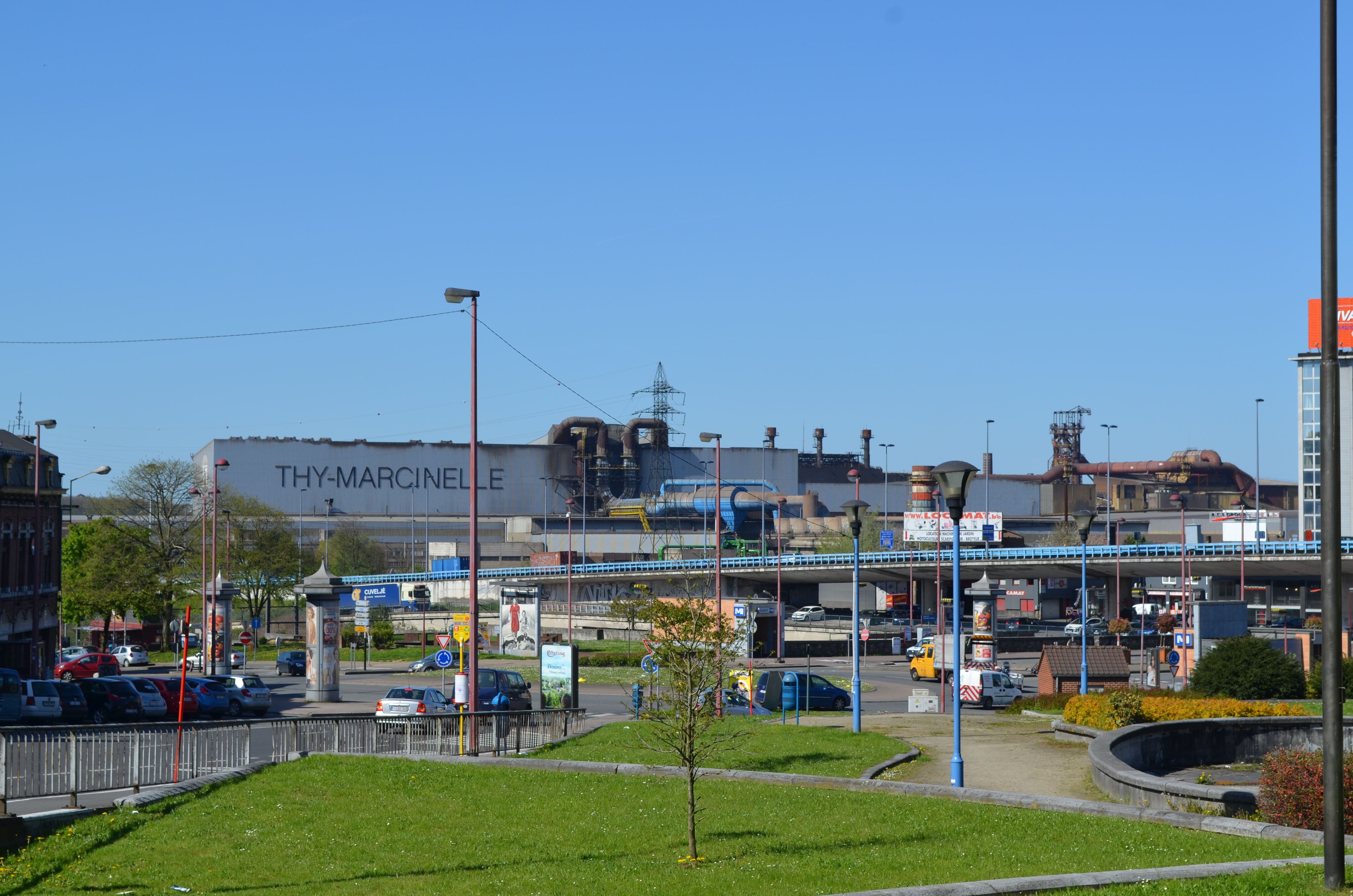 Charleroi (Belgium) - Thy-Marcinelle